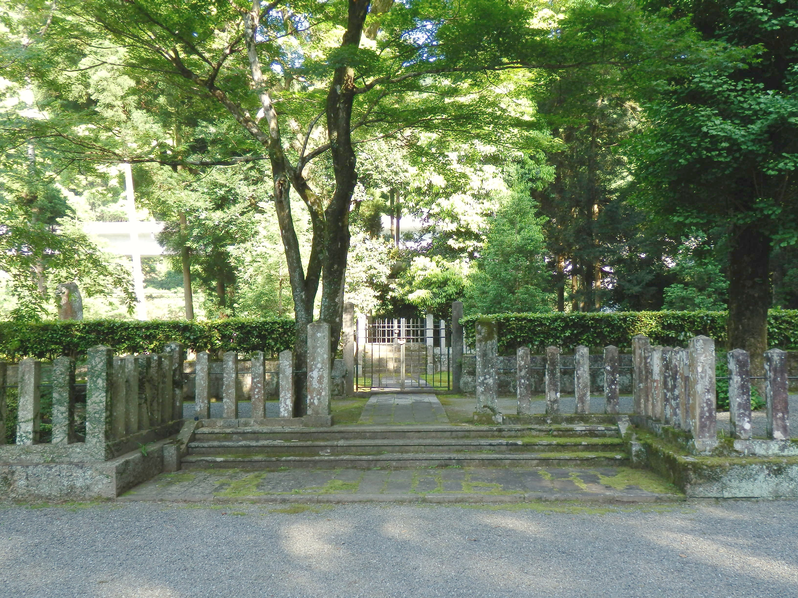 The Tomb of Prince Kaneyoshi, in Yatsushiro, Kumamoto Prefecture, Japan